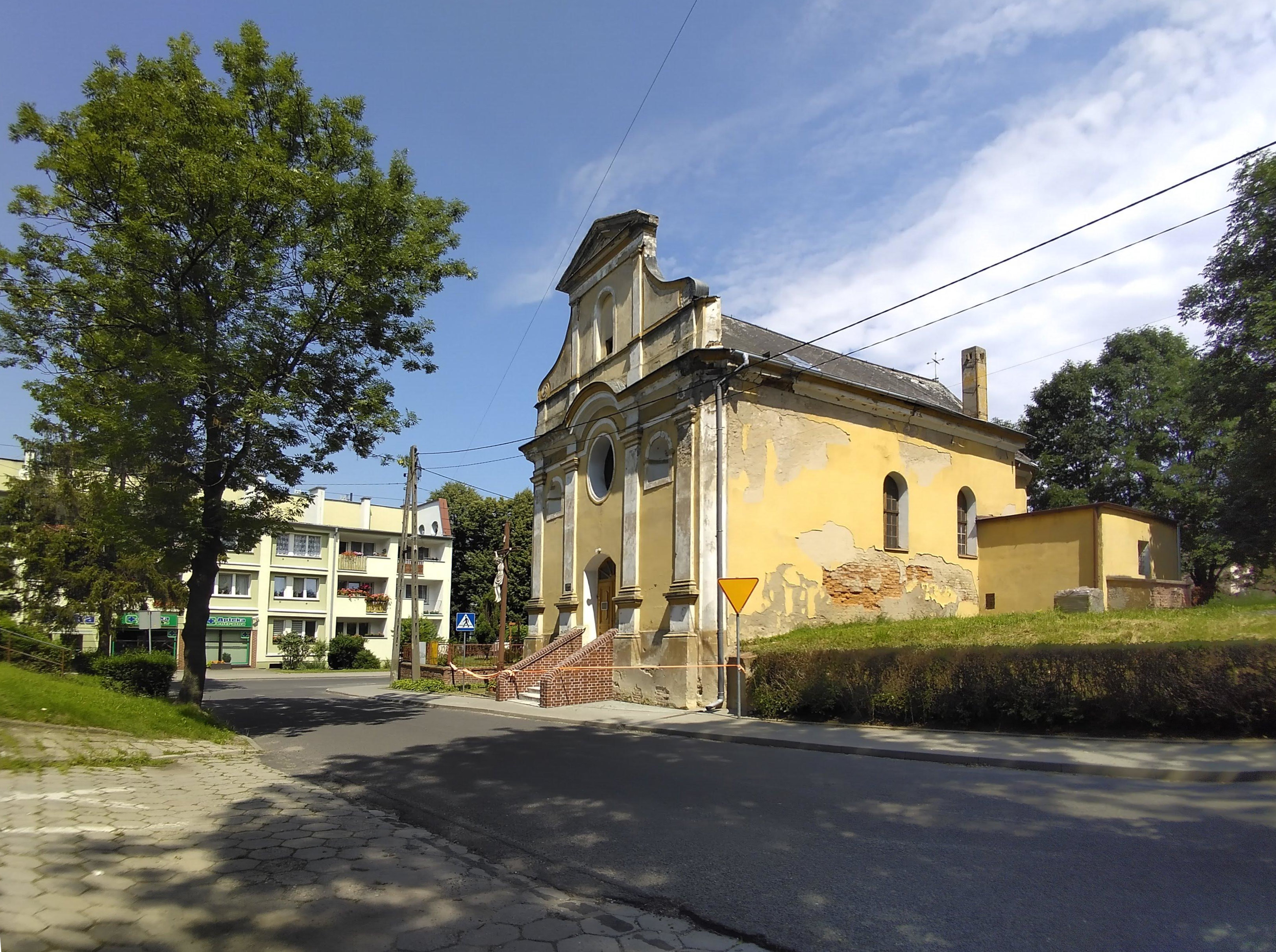 Chapel of Saint Cross (former cemetery chapel built in 1784) in the town of Kietrz/Katscher, Upper Silesia, Poland